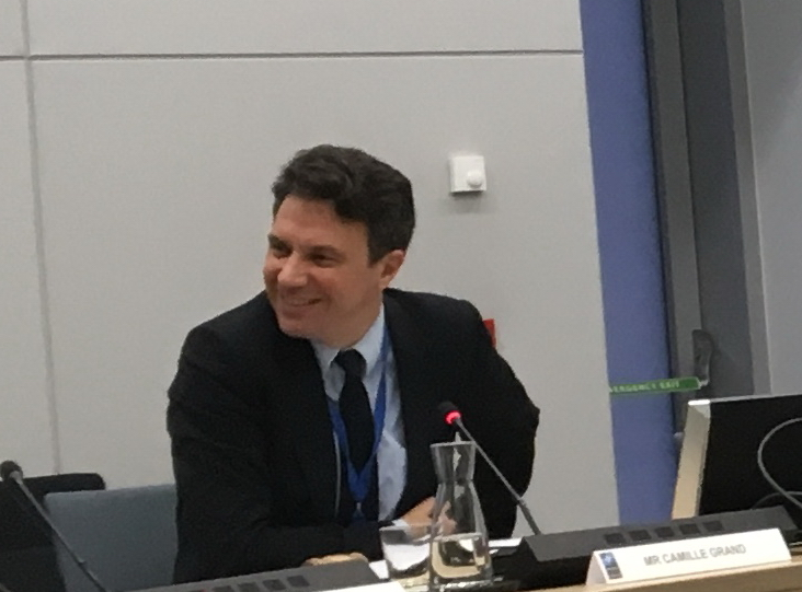 NATO’s Assistant Secretary General for Defence Investment Camille Grand